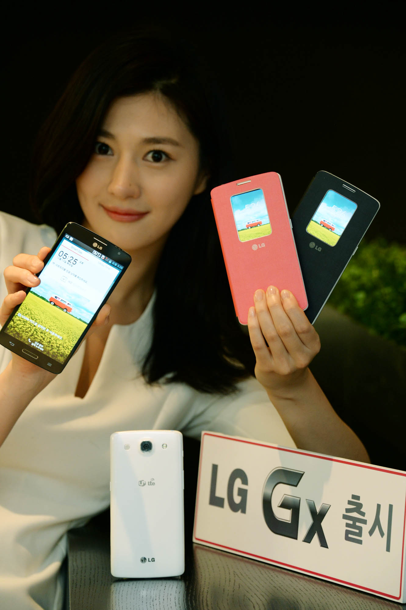 Model introducing LG Gx